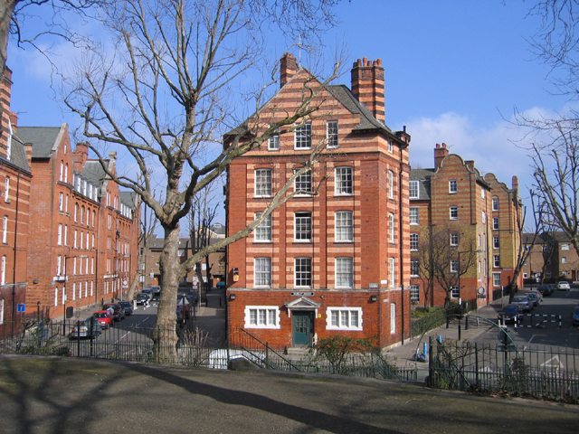 Hurley House, Bethnal Green, E2. view E from Arnold Circus.